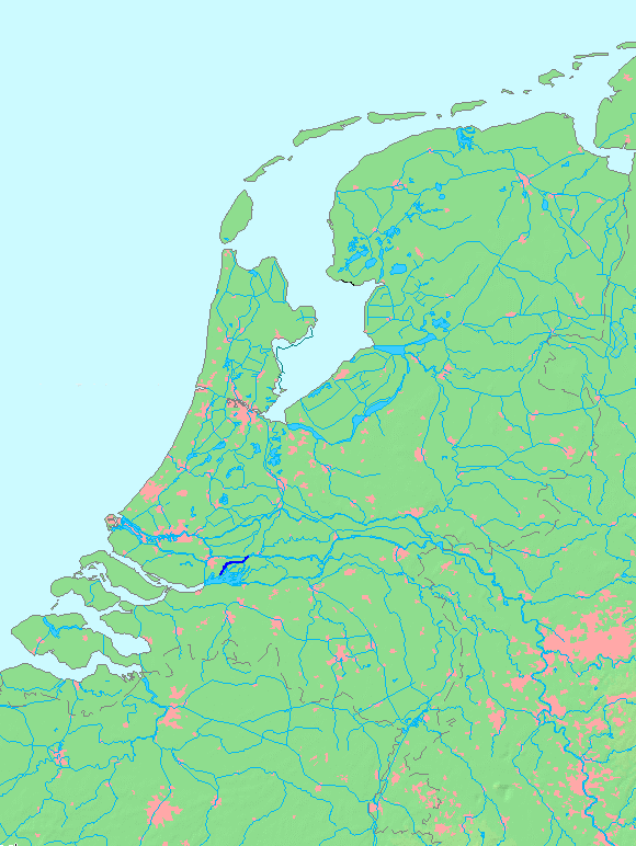 Location of a waterway (river/canal) in the Netherlands